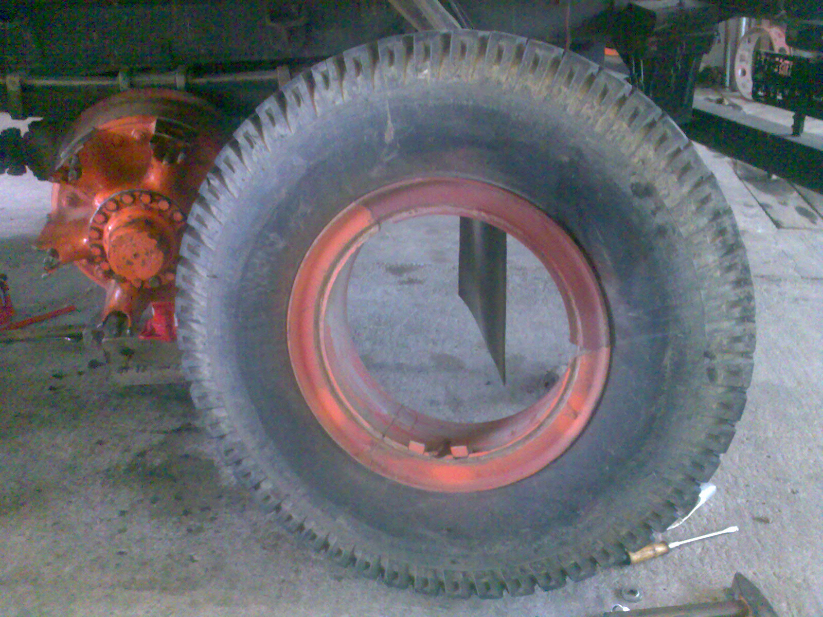 20" Trilex Rim